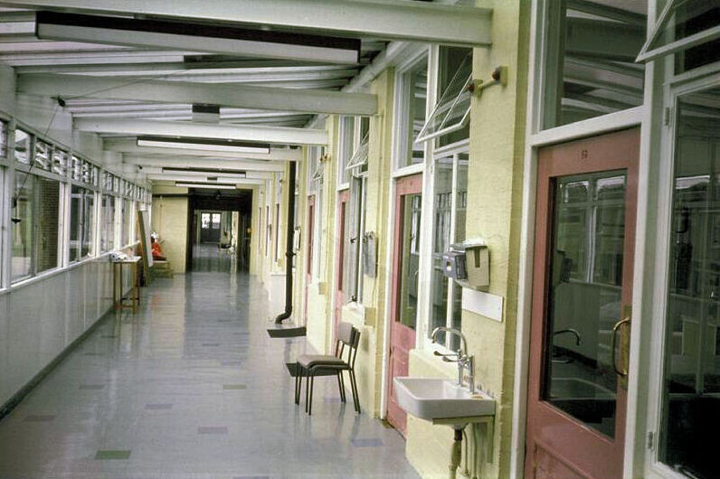 The ward at East Birmingham Hospital where smallpox victim Janet Parker was admitted in 1978